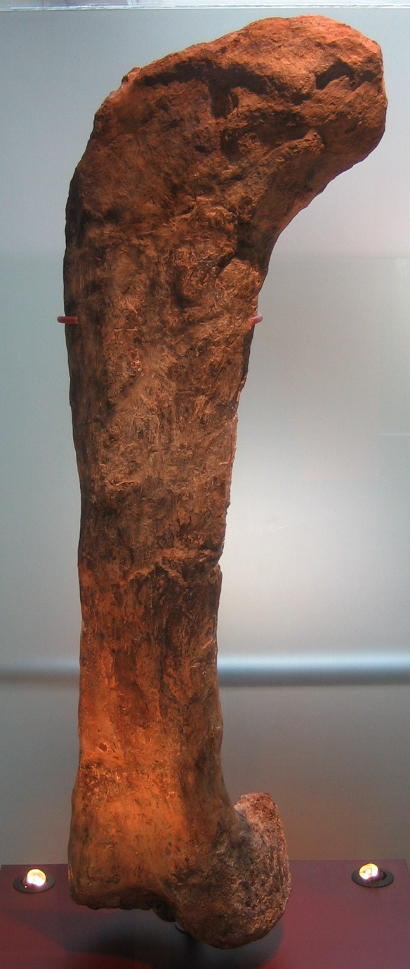 Apatosaurus sp. femur exhibited in Cosmocaixa, Barcelona.